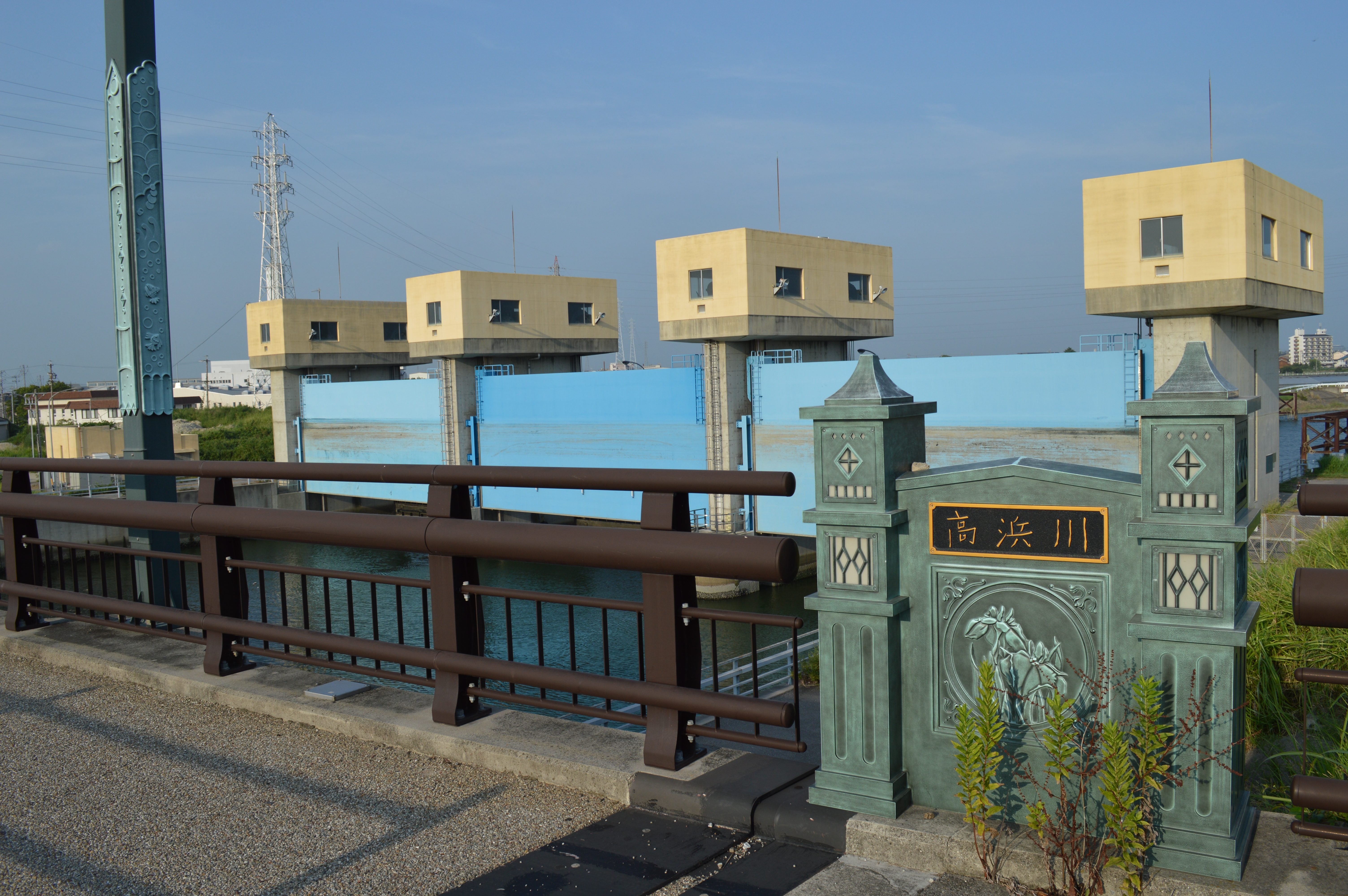 The Takahamagawa Floodgate on the Takahama River in Hekinan City, Aichi Prefecture, Japan